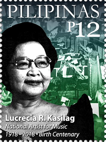 BIRTH CENTENNIAL OF LUCRECIA ROCES KASILAG: National Artist for Music